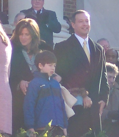 Martin O'Malley's inauguration